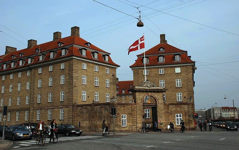 The former Sølvgade Barracks in Copenhagen, Denmark. Now headquarters of the Danish State Railways (DSB)